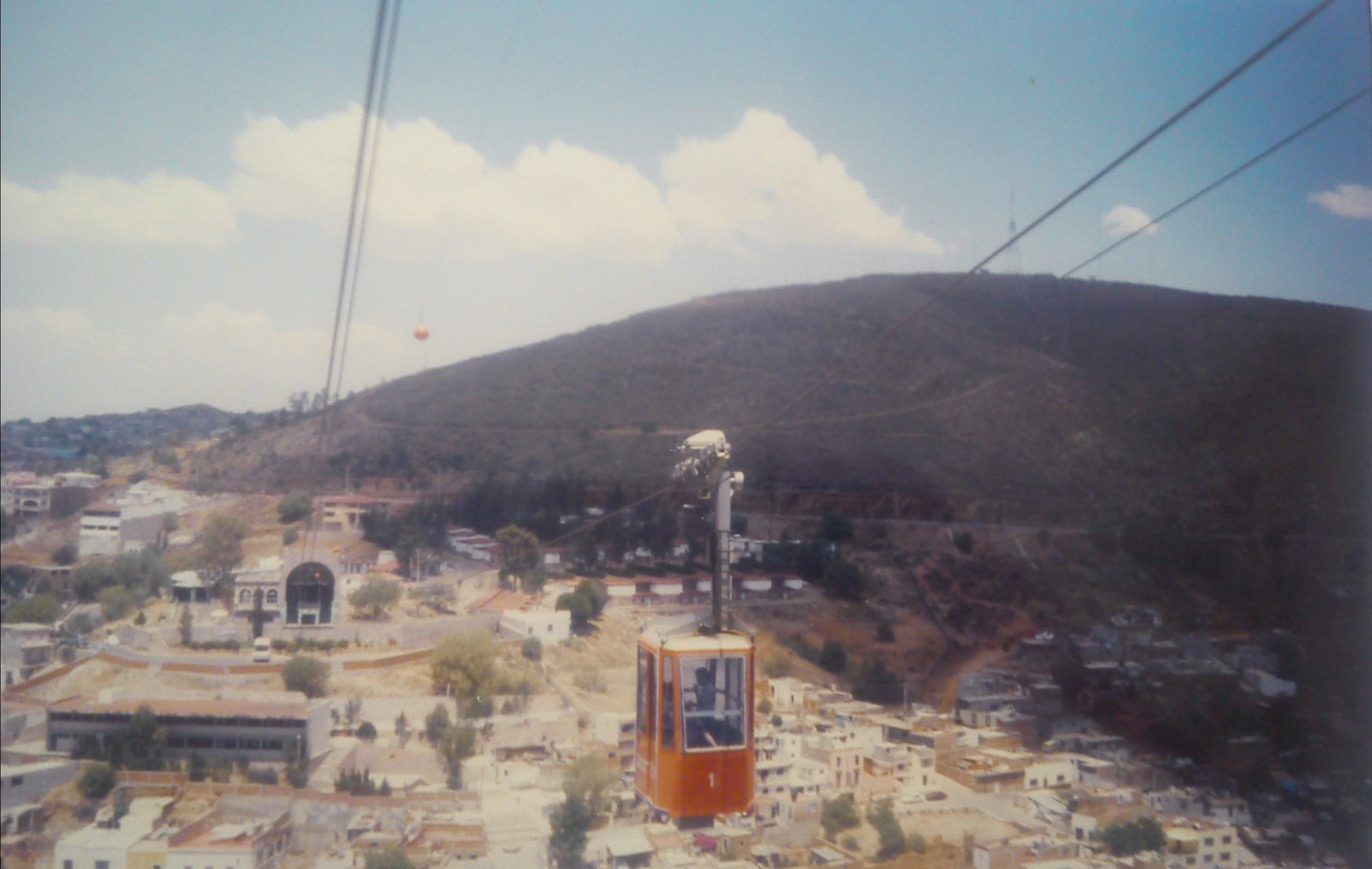 Cableway in the city of Zacatecas